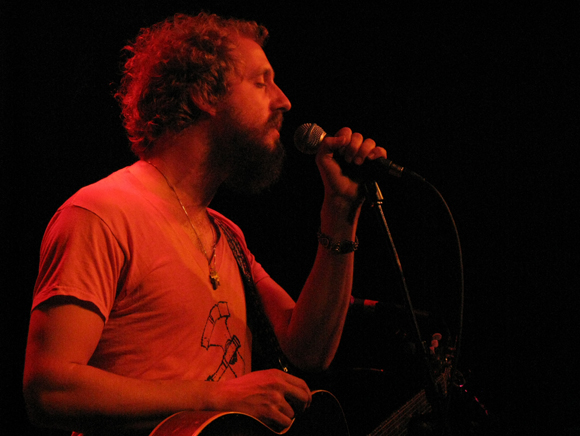 Phosphorescent at the Echo in Los Angeles, CA.